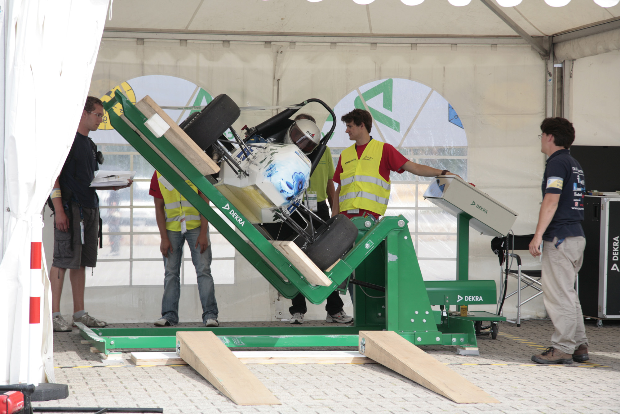 Titlt table at FSG 2008